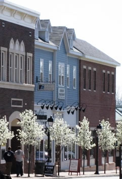 Image of the downtown gateway in Montgomery,Ohio